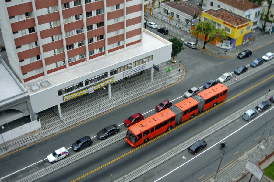 Bi-articulated bus in exclusive central bus lane at Ave. 7 de setembro (South trunk line) near Curitiba Shopping, RIT Curitiba, Brazil.